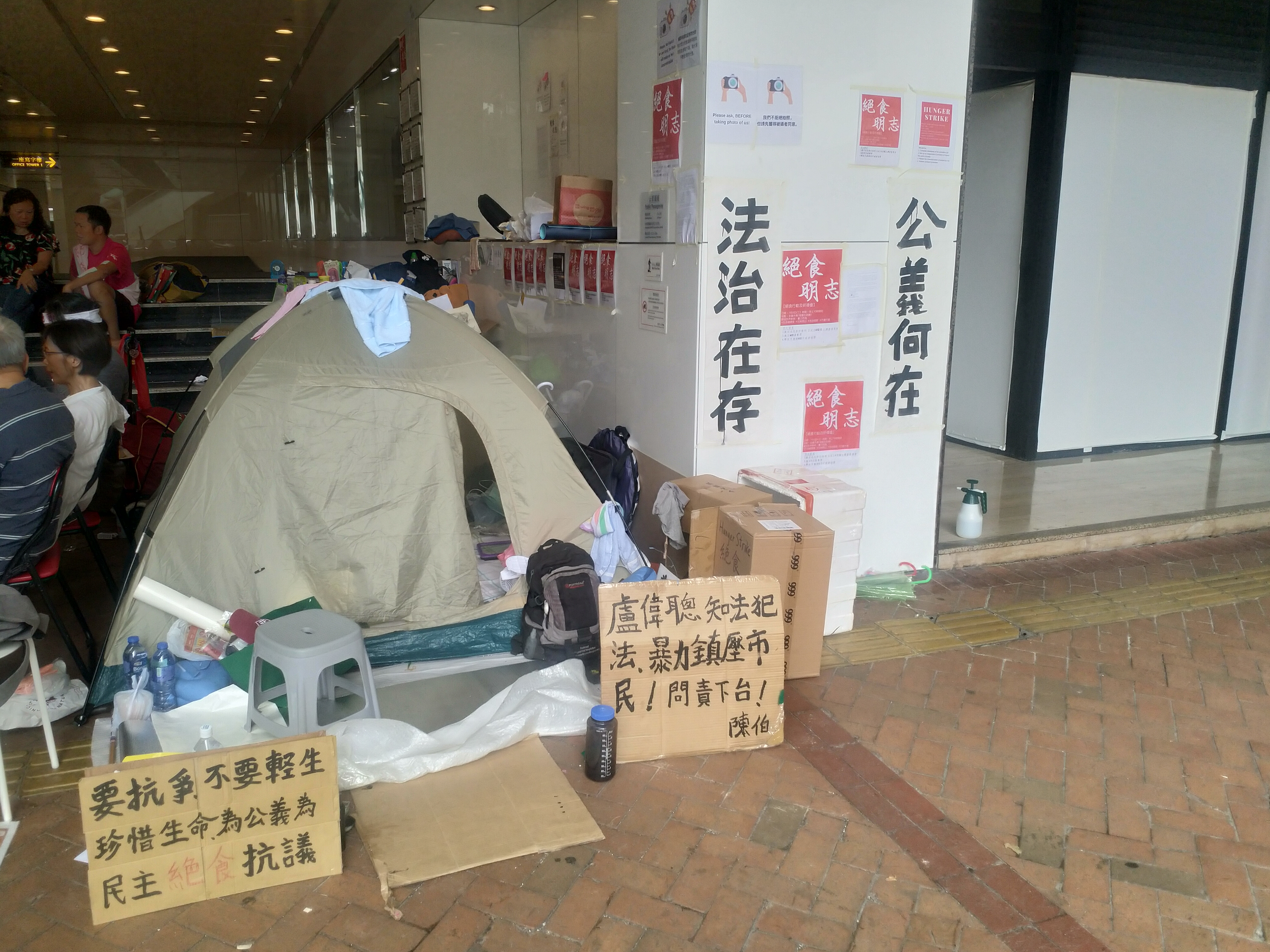 Hunger strike against proposed extradition bill outside Admiralty Centre, Hong Kong